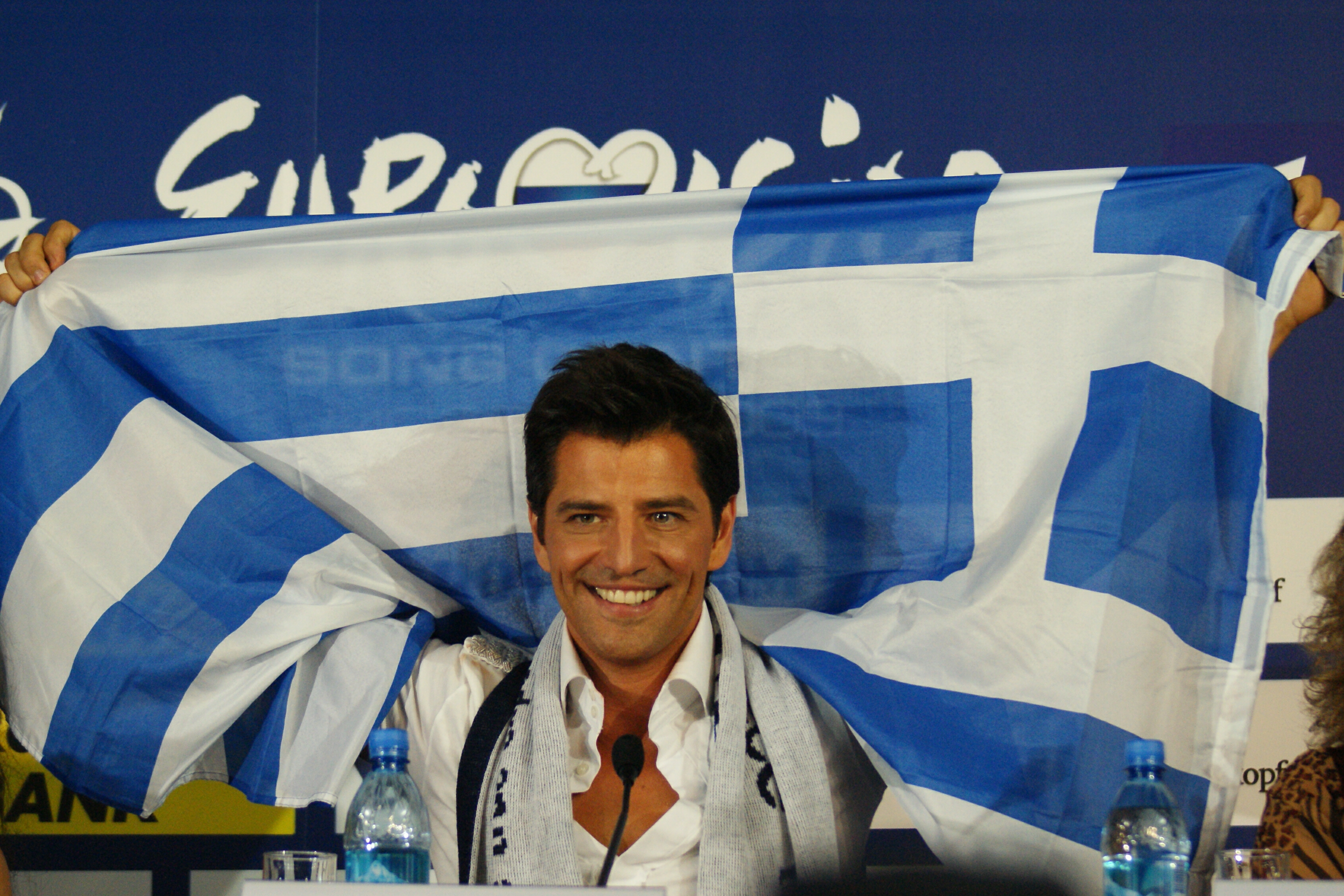 Sakis Rouvas in the ESC press conference to determine the running order following the semi-final